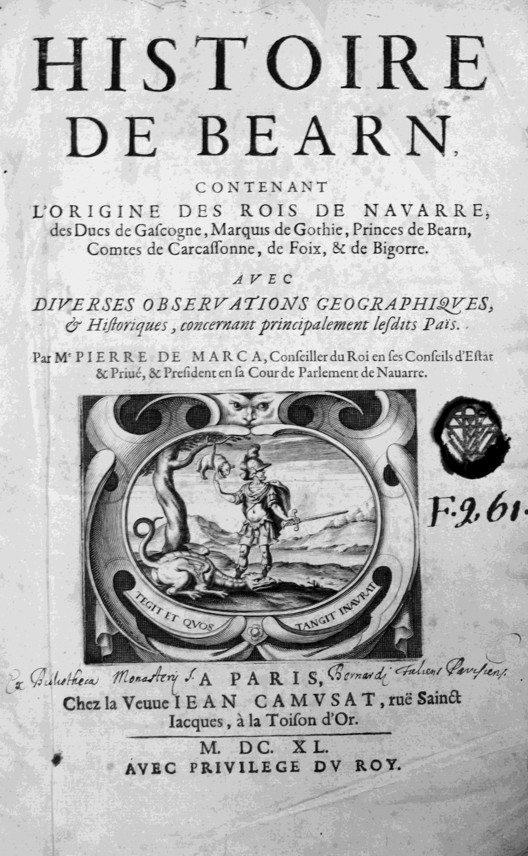 Histoire de Béarn by Pierre de Marca. Paris, 1640